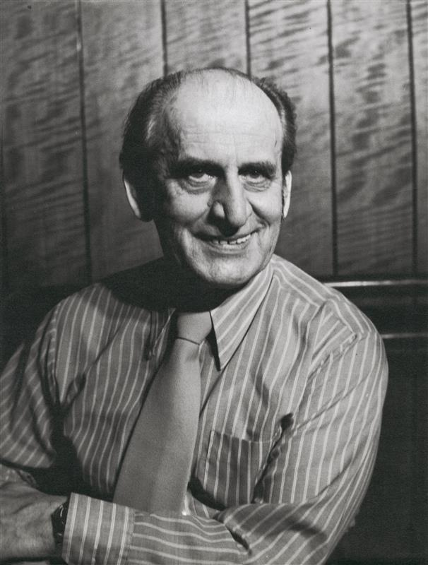 Emerich Gabzdyl, Czech dancer and choreographer